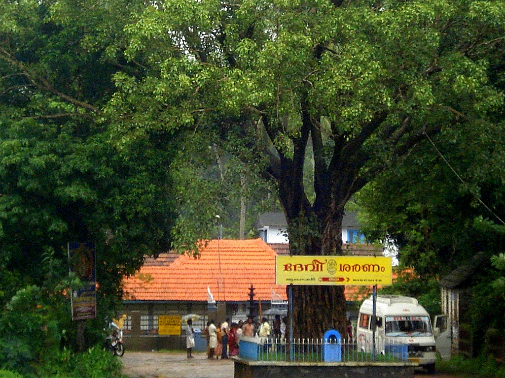 Kurumalikaavu Devi Temple